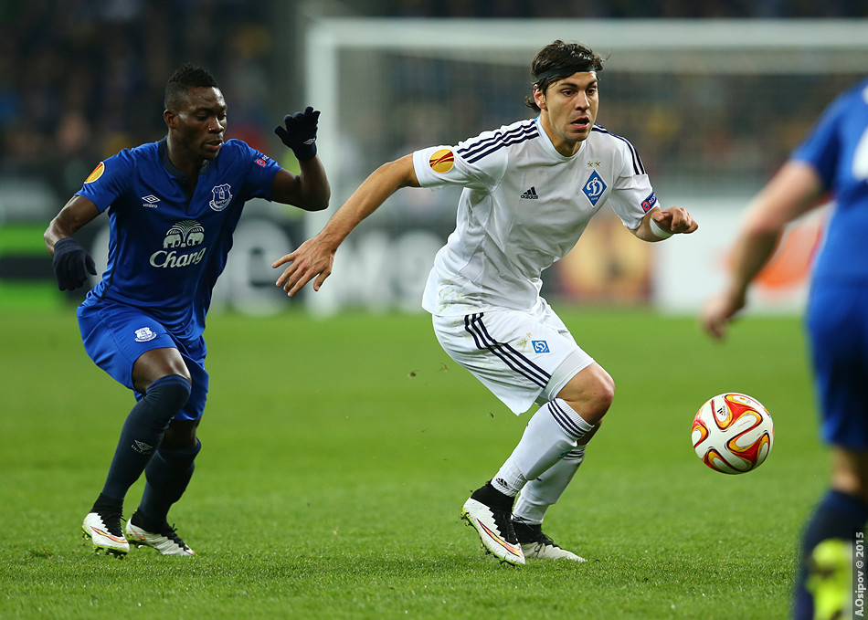 UEFA Europa League 2014-15 1/8 Final NSK Olimpiyskyi - Kyiv 19/03/2015 - 19:00CET (20:00 local time) Round of 16, Second leg Dynamo Kyiv - Everton - 5:2 Goals: Yarmolenko 21 Lukaku 29 Teodorczyk 35 Miguel Veloso 37 Gusev 56 Antunes 76 Jagielka 82 Aggregate: 6-4